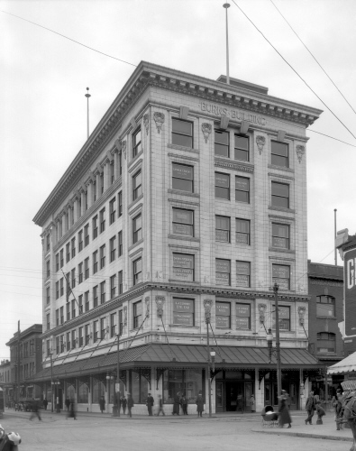 Burns Building Provincial Historic Resource, Calgary (1930s)